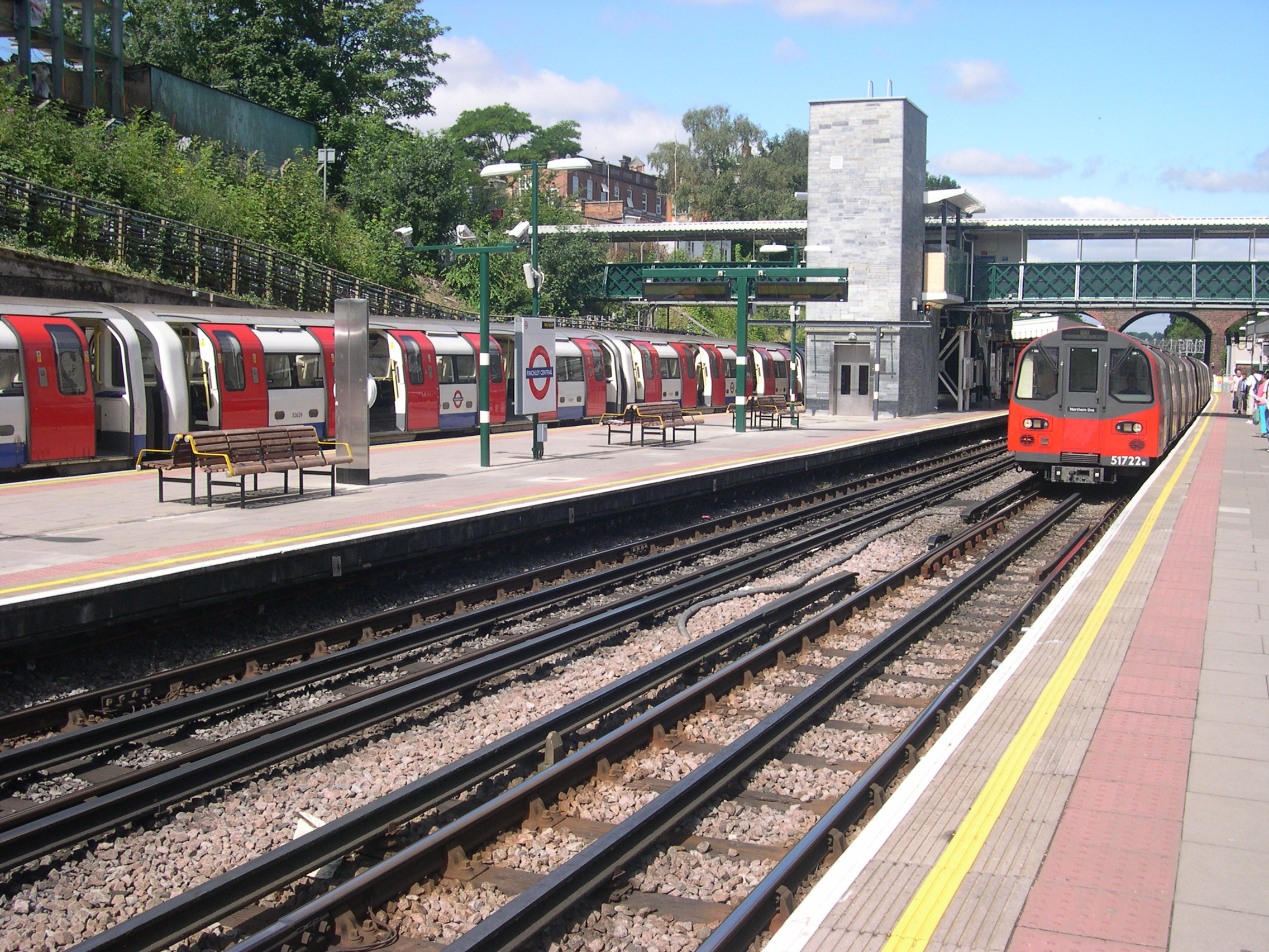 Northern line trains approaching Finchley Central station (platforms 1 and 3 respectively) both awaiting departure